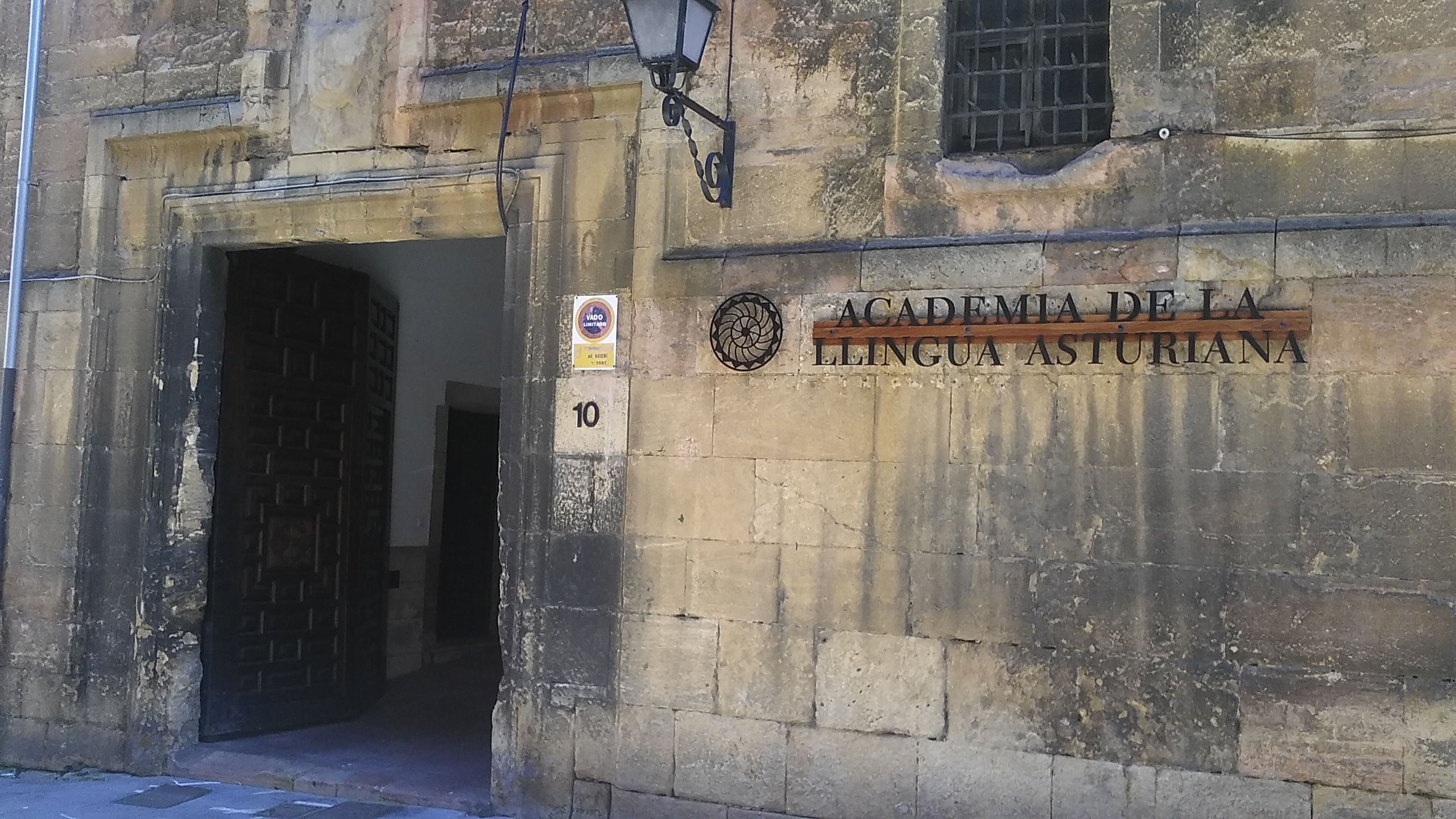 Academy of the Asturian Language, in Oviedo (Asturias), Spain.